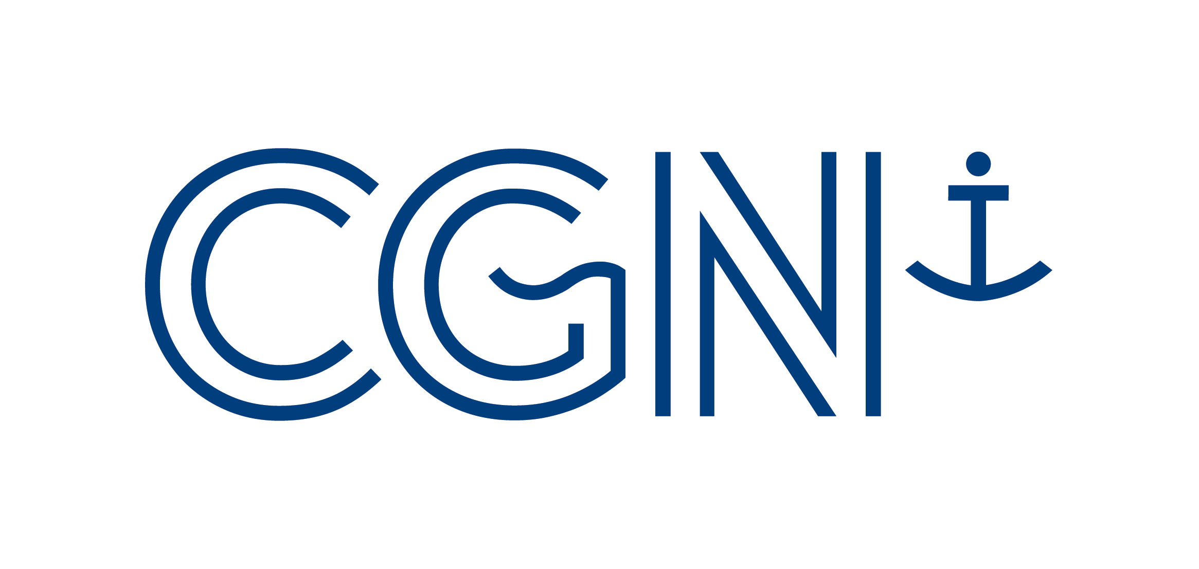 Logo